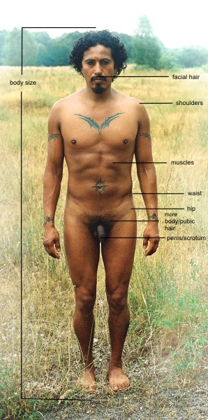 male secondary sexual characteristics